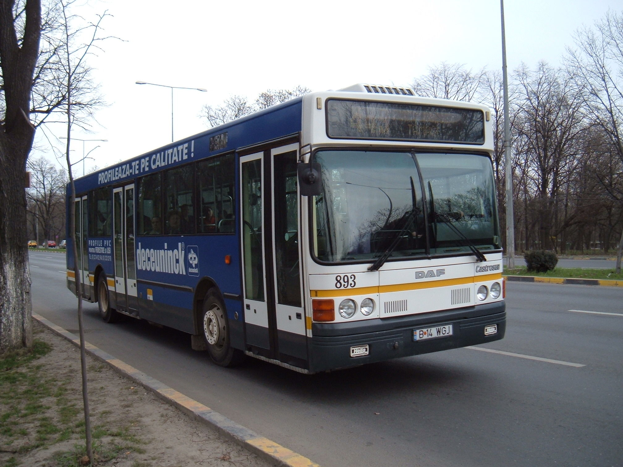 Public DAF Castrosua bus (#893) in Bucharest, Romania (DAF SB220 chassis type). RATB Bucureşti operator.